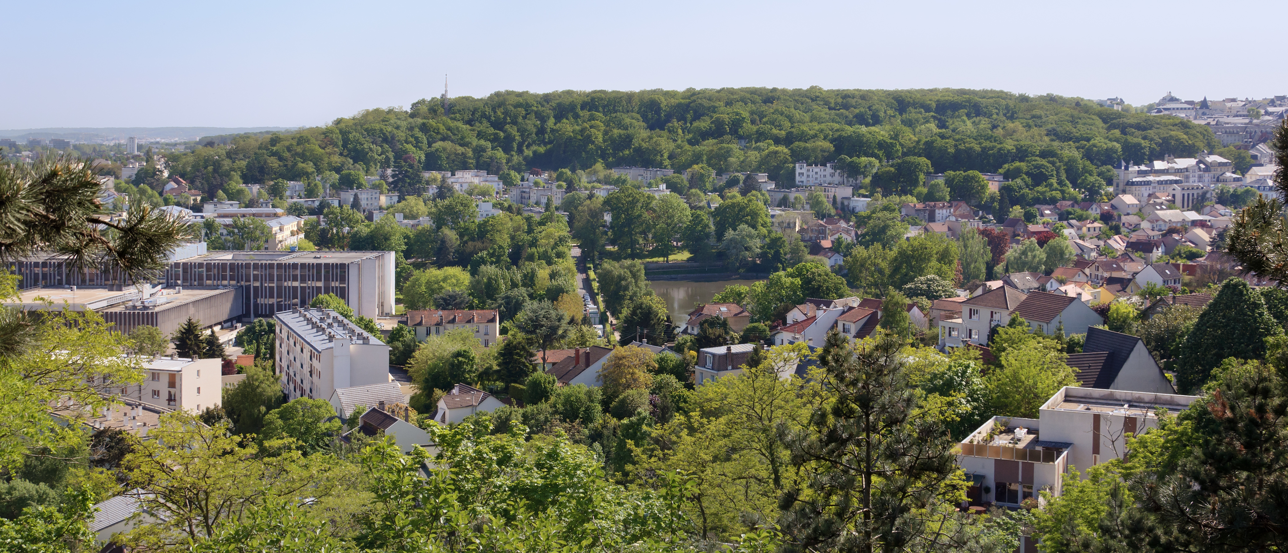 Panoramic view of Le Plessis-Robinson, Hauts-de-Seine, France, seen from the Chemin du Panorama.